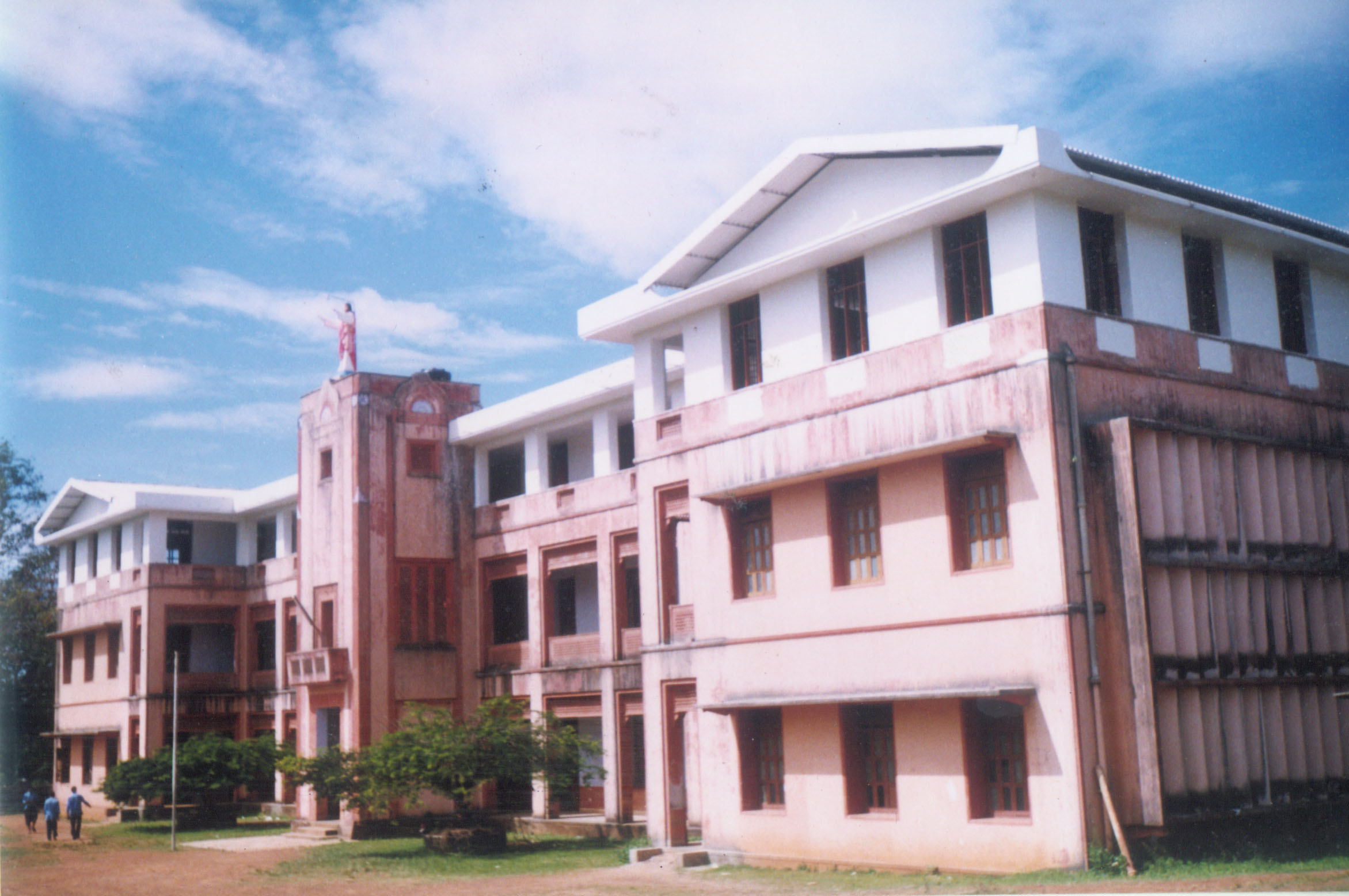 Photo of thyagarajar poly technic during year 2000.